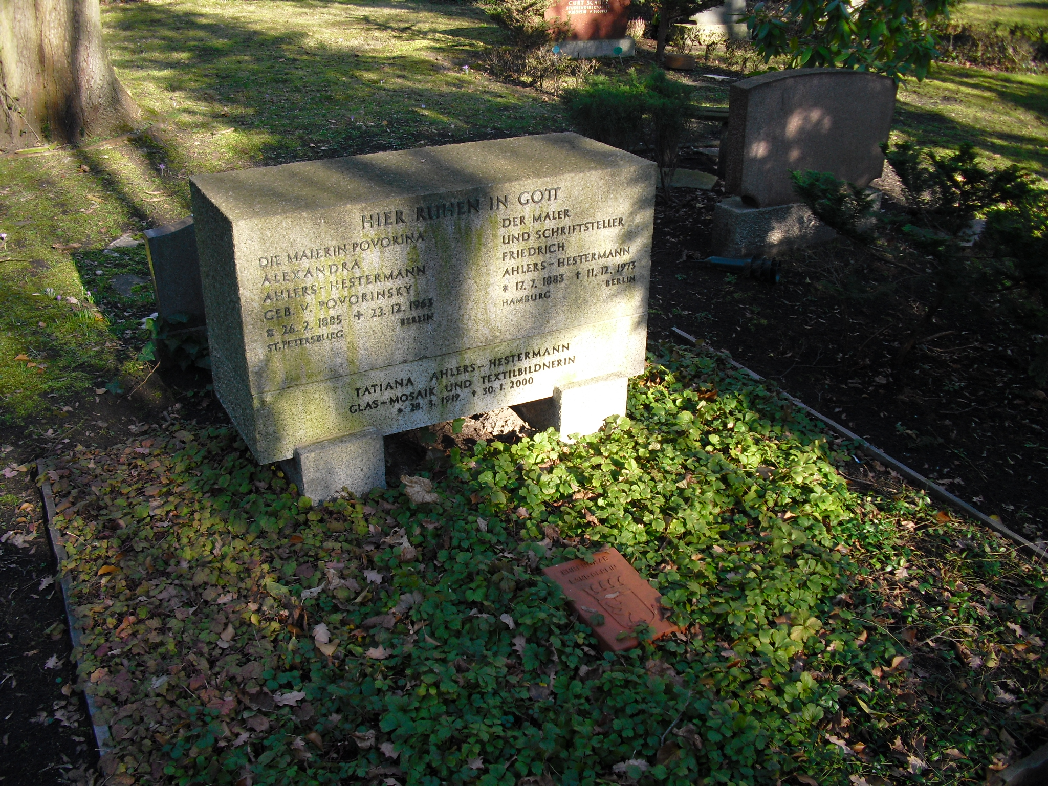 Honory grave of German painter Friedrich Ahlers-Hestermann in Dankes-Friedhof, Berlin-Reinickendorf